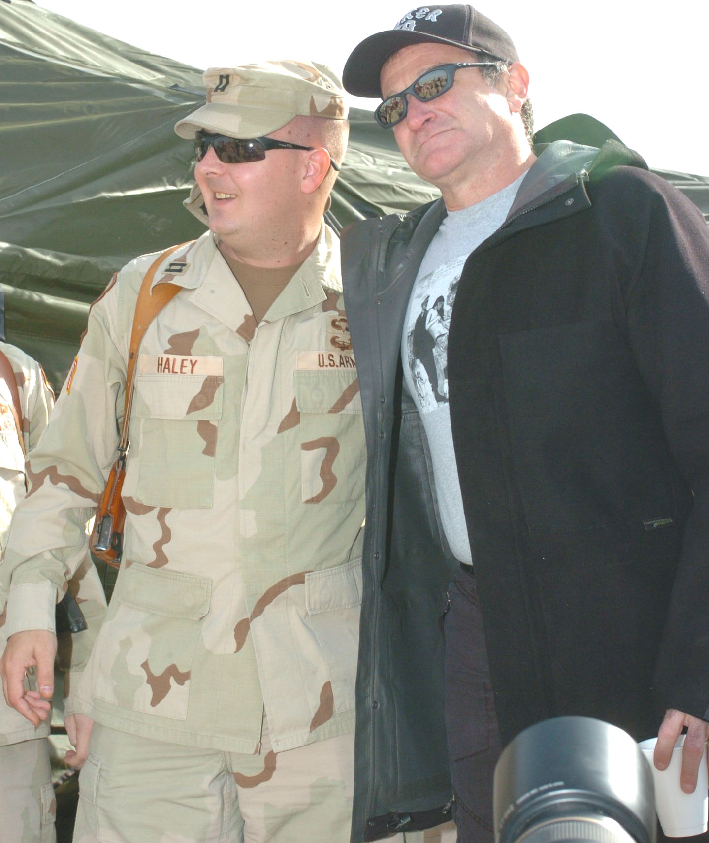 Comedian-actor Robin Williams poses with a troop during a United Service Organizations show Dec. 14 aboard Camp Victory in Baghdad, Iraq.